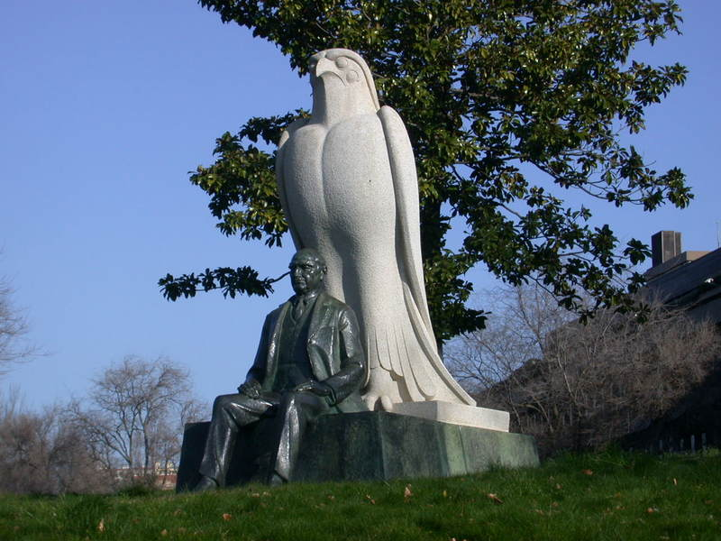 Museu Calouste Gulbenkian, Lisbon: Statue of the founder. Sample scene for HDRI (standard LDR, taken using auto exposure).